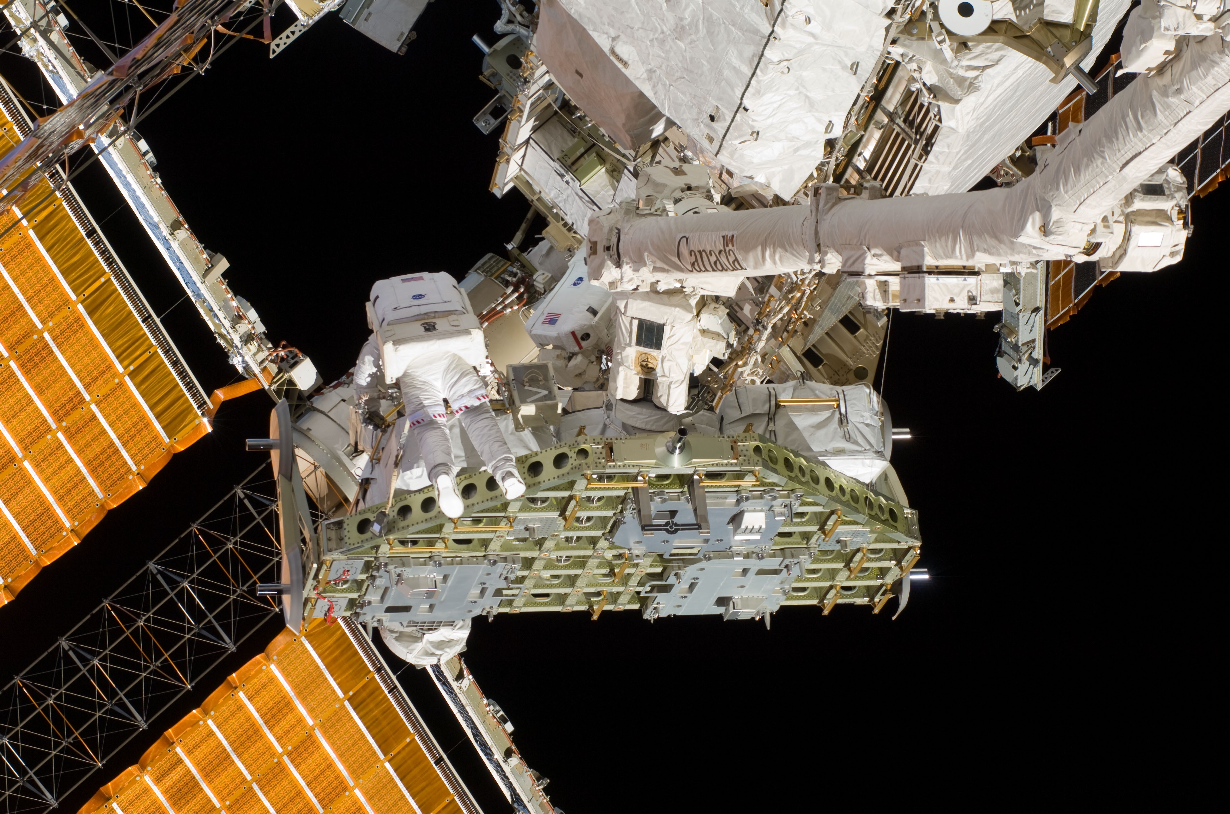 Astronauts Christopher Cassidy (left) and Dave Wolf work with the Integrated Cargo Carrier-VLD, as they remove and replace batteries on the P6 truss during STS-127's third session of extravehicular activity.